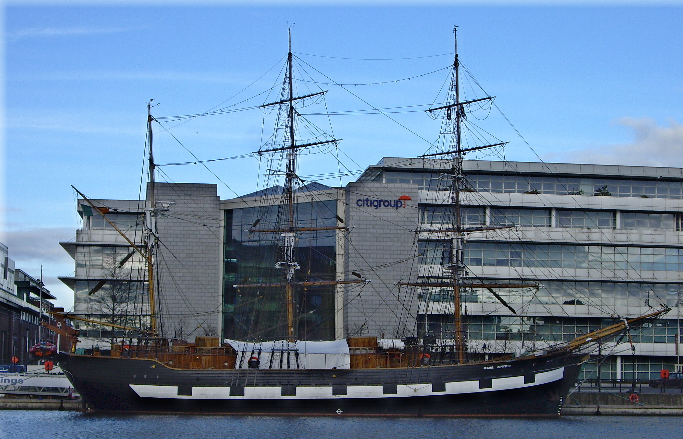 Jeanie Johnston from City Quay